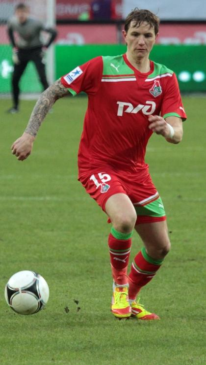 Roman Pavlyuchenko playing for FC Lokomotiv Moscow in 2012.